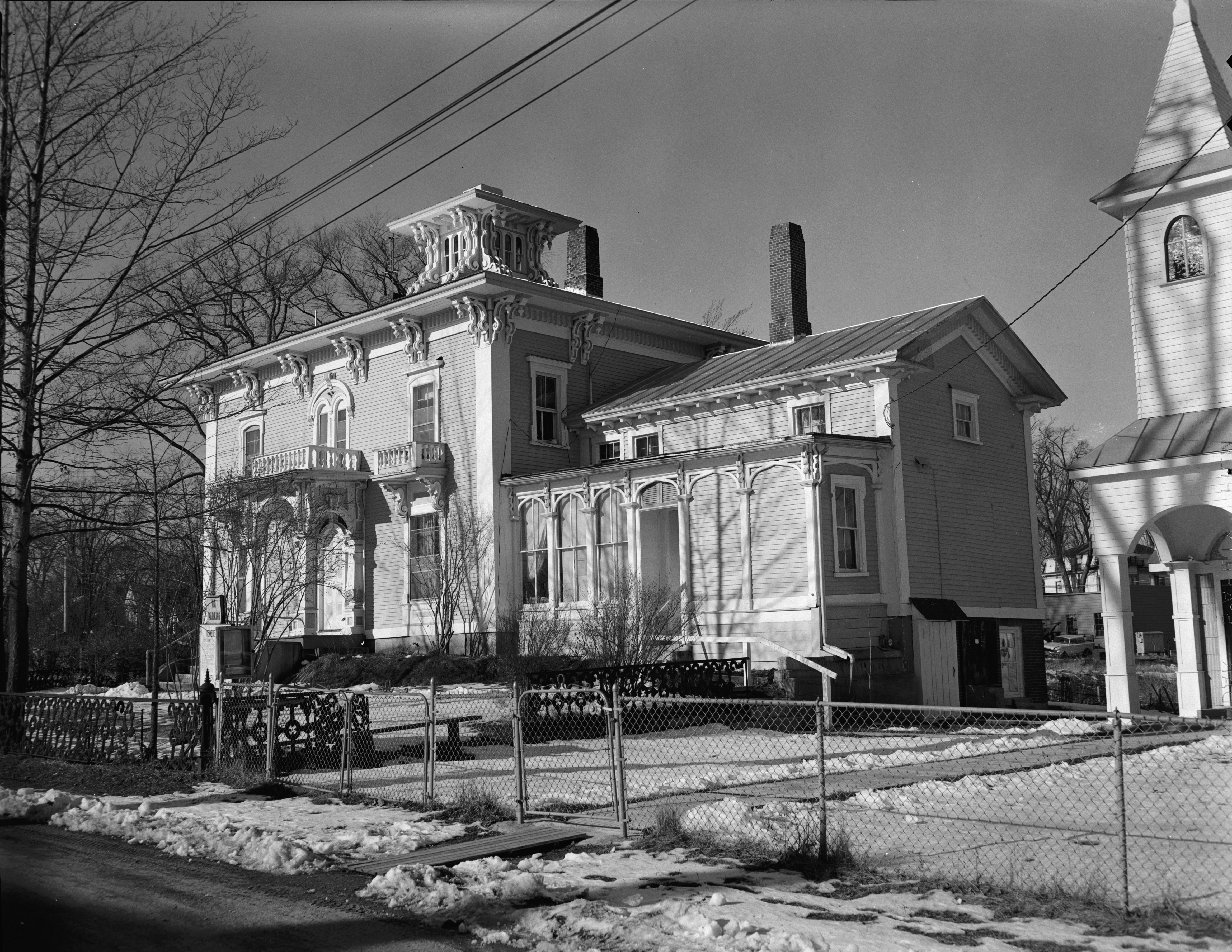 Thomas Jefferson Southard House, South (front) and East elevation, 17 Church Street, Richmond, Sagadahoc County, Maine. Part of the Richmond Historic District.